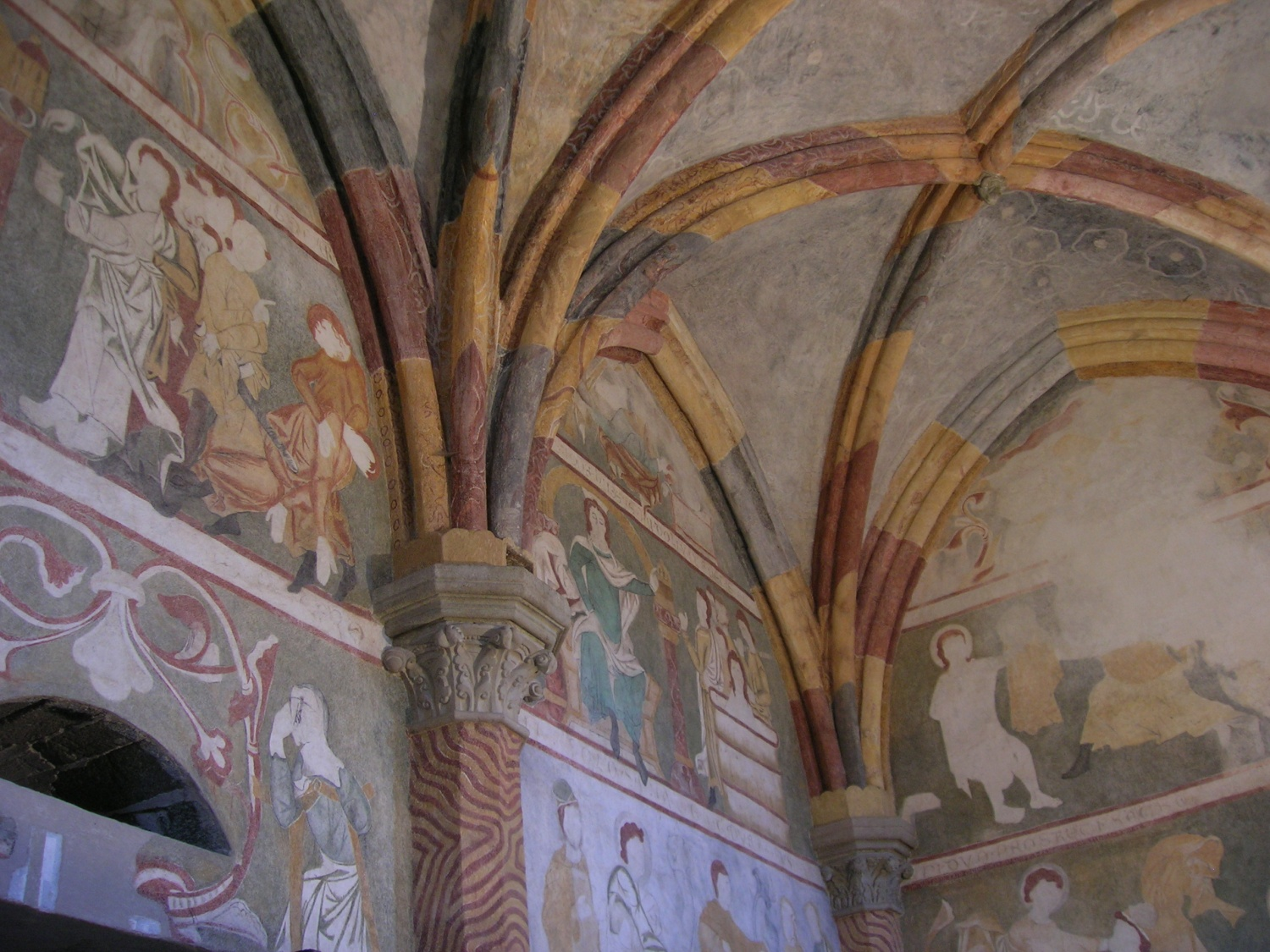 Třebíč-Podklášteří. St Procopius' Basilica. Abbot's chapel